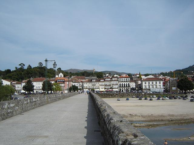 Ponte de Lima: bridge over the Lima river, Portugal.